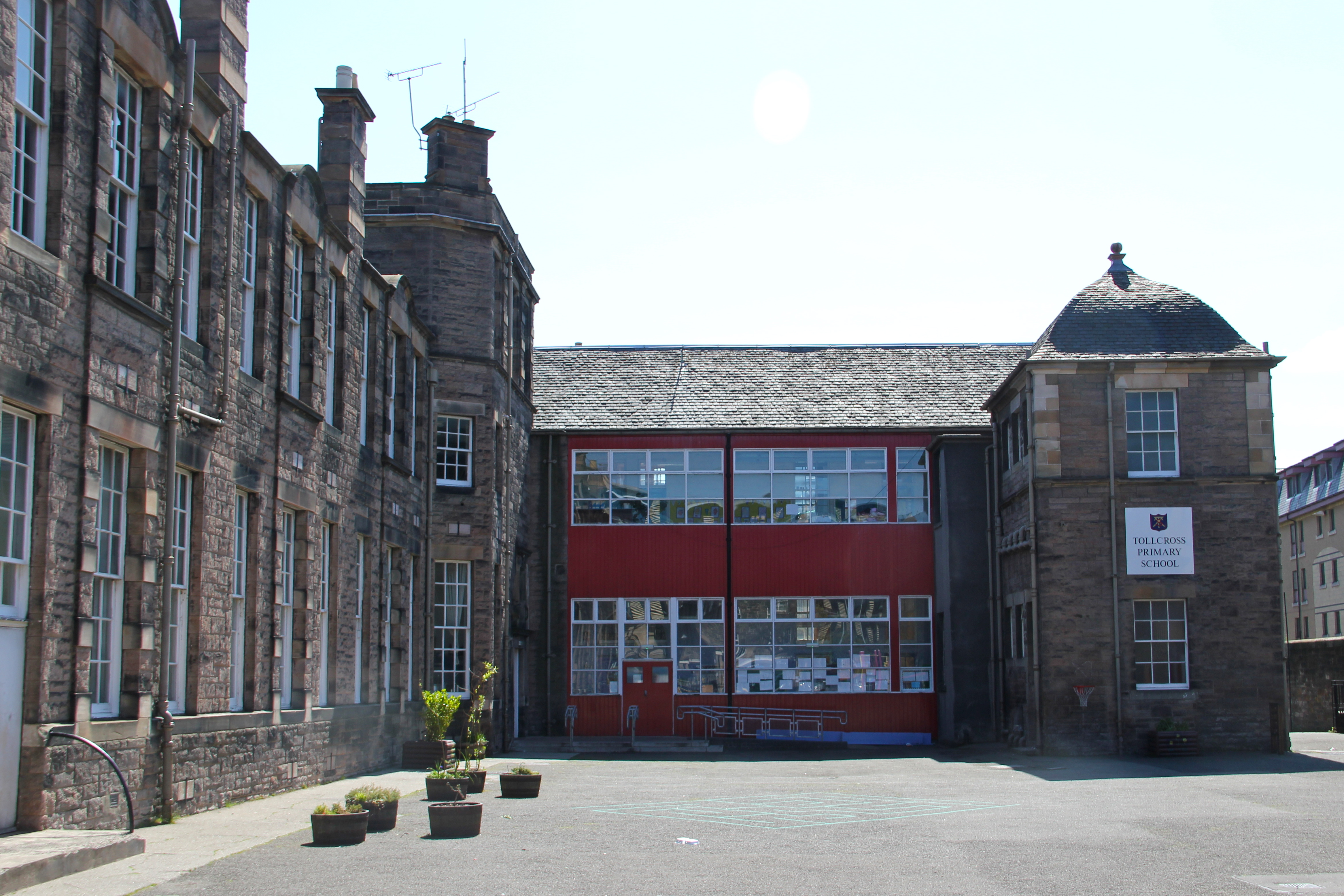 Tollcross Primary School, 117 Fountainbridge, Edinburgh EH3 9QG, United Kingdom.